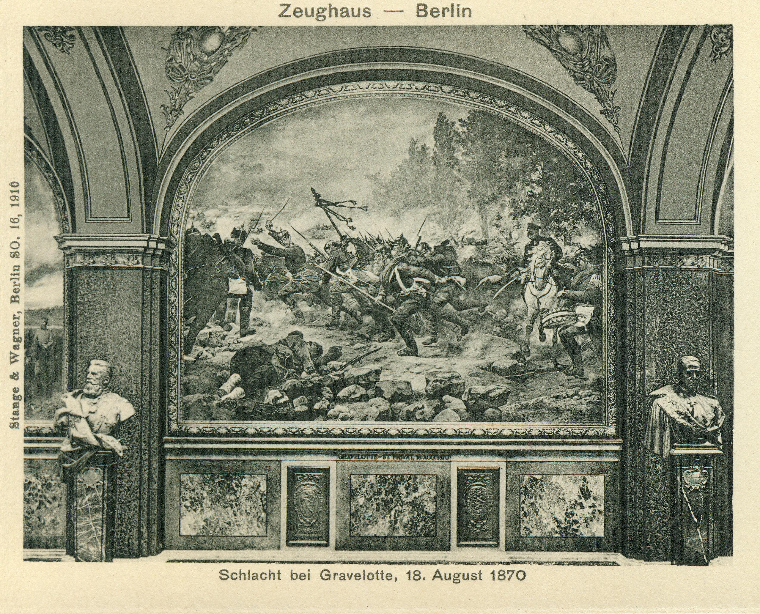 Ruhmeshalle Berlin, wallpainting by Georg Bleibtreu